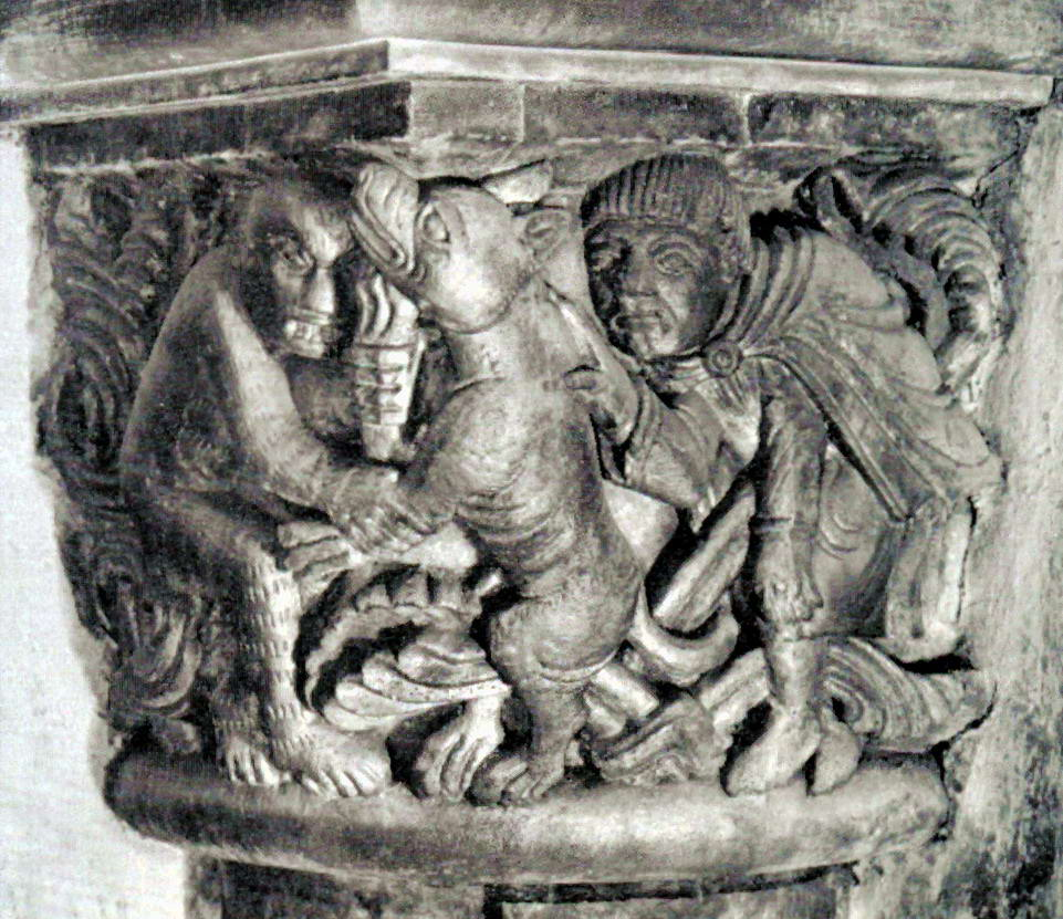 Maastricht, Saint Servatius Basilica. Carved capital showing a monkey fighting a dog in West choir (XIIth c.).